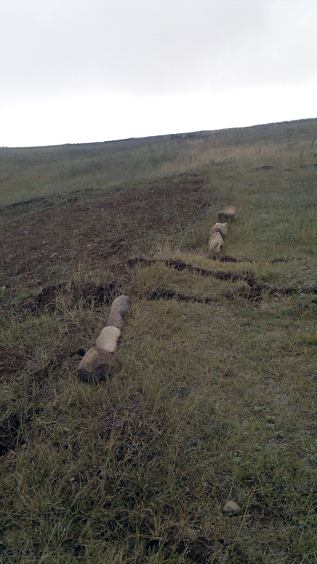 This fault which caused a big earthquake in East Azerbaijan of Iran is located near the city of Varzaghan.